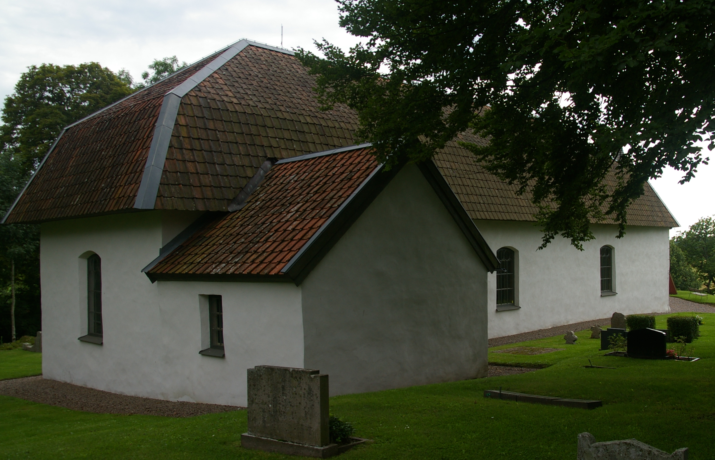 Vartofta-Åsaka kyrka (Swedish:Church of Vartofta-Åsaka) in Västergötland, Sweden.